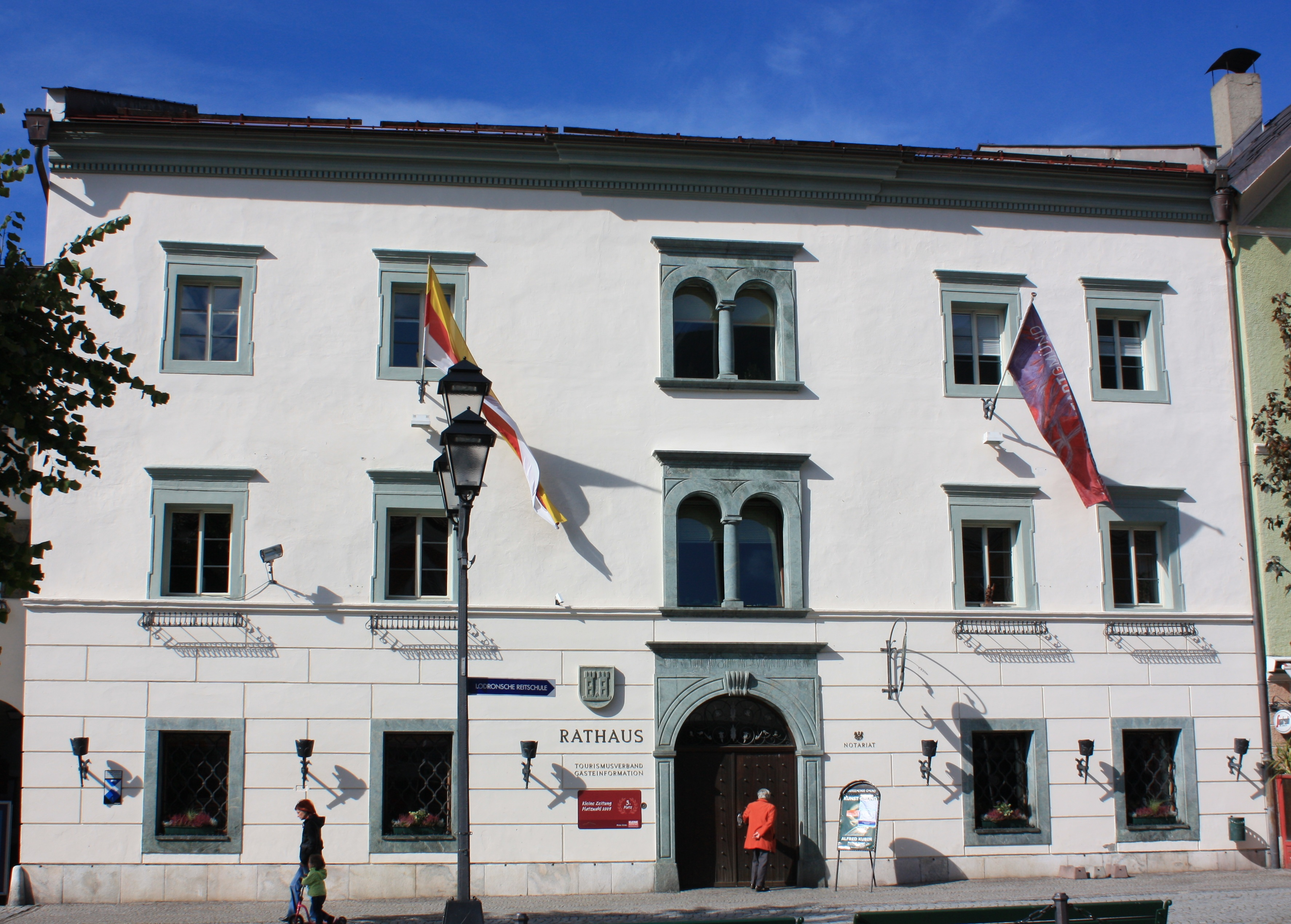 Town hall Locality:Hauptplatz Community:Gmünd